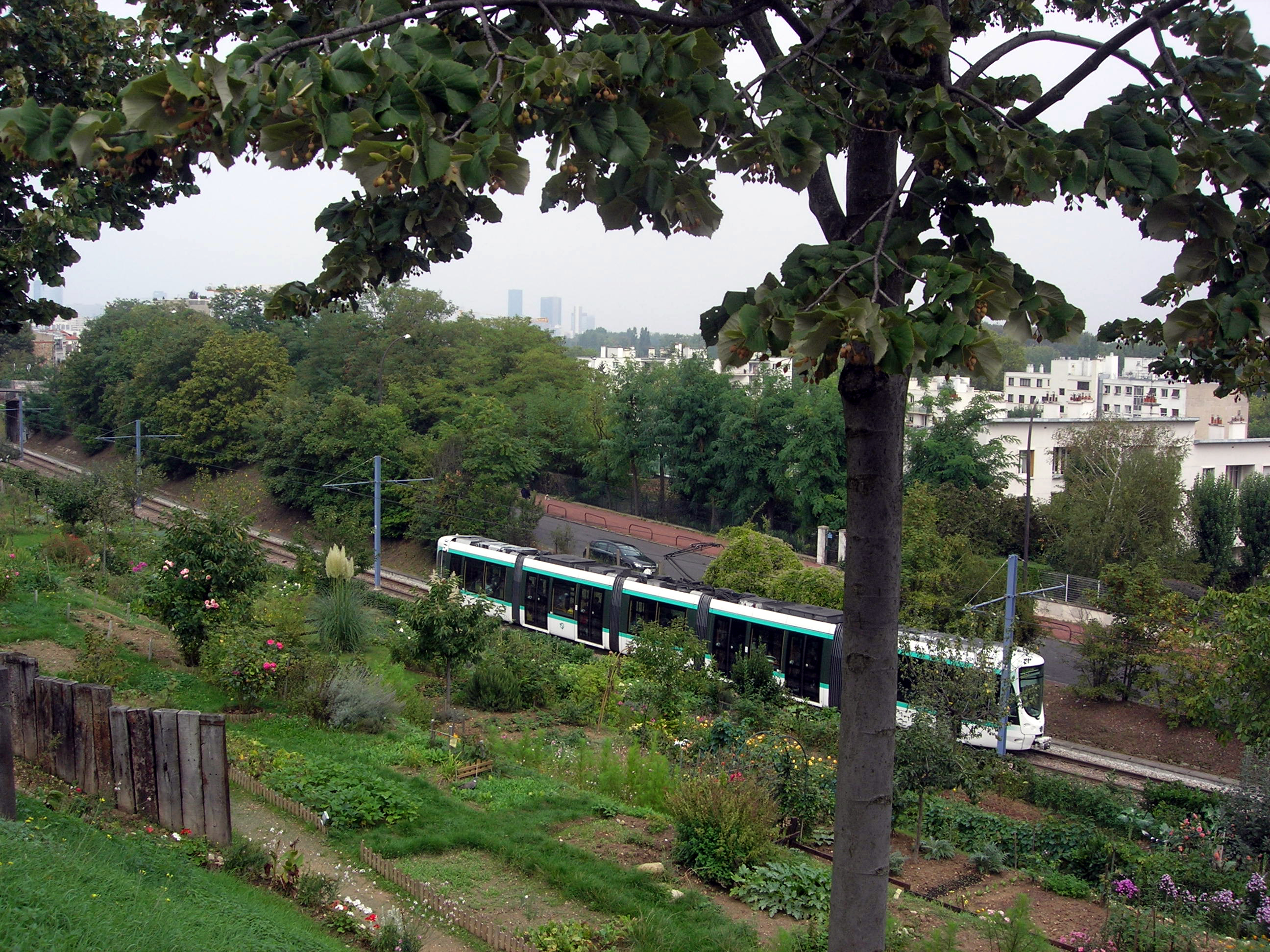 Allotments in Saint-Cloud, France.